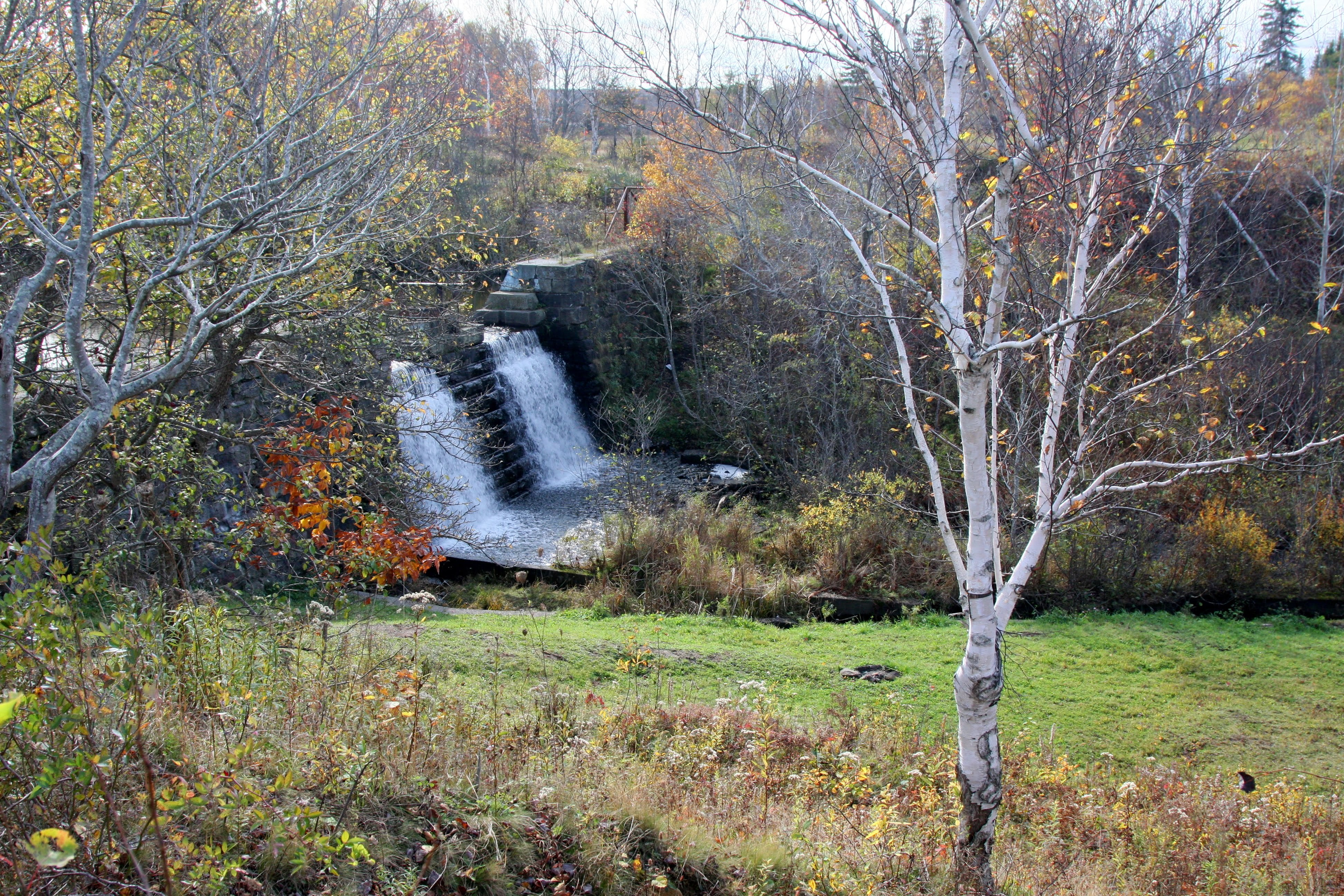 Rotary Park - GreenLink Trails, Sydney, NS - Former Reservoir Dam and Waterfall. Greenlink Rotary Park Trail System is a Canadian urban park located in Sydney, part of Nova Scotia's Cape Breton Regional Municipality. Greenlink Trail System is a series of 2.5 to 3 metres (8 to 10 ft) wide crushed limestone paths suitable for walkers and cyclists. The gravel surfaces are not suitable for wheelchairs or strollers. The paths meander through a scenic natural area bordering Wentworth Creek (Reservoir Brook, also know as Sullivan's Brook) and a historic water reservoir with a stone dam and waterfall. The paths are not illuminated at night. Benches have been provided along the paths for resting, signs and interpretive displays for information. The trail system connects Sydney’s Shipyard and South End neighbourhoods to Membertou First Nation and the Cape Breton Regional Hospital. Two of the trails system progress from Shandwick Street and the St. Anthony Daniel Ball Park. Both trails converge with the trail from Rotary Drive, cross Churchill Drive, and extend to the Cape Breton Regional Hospital property.